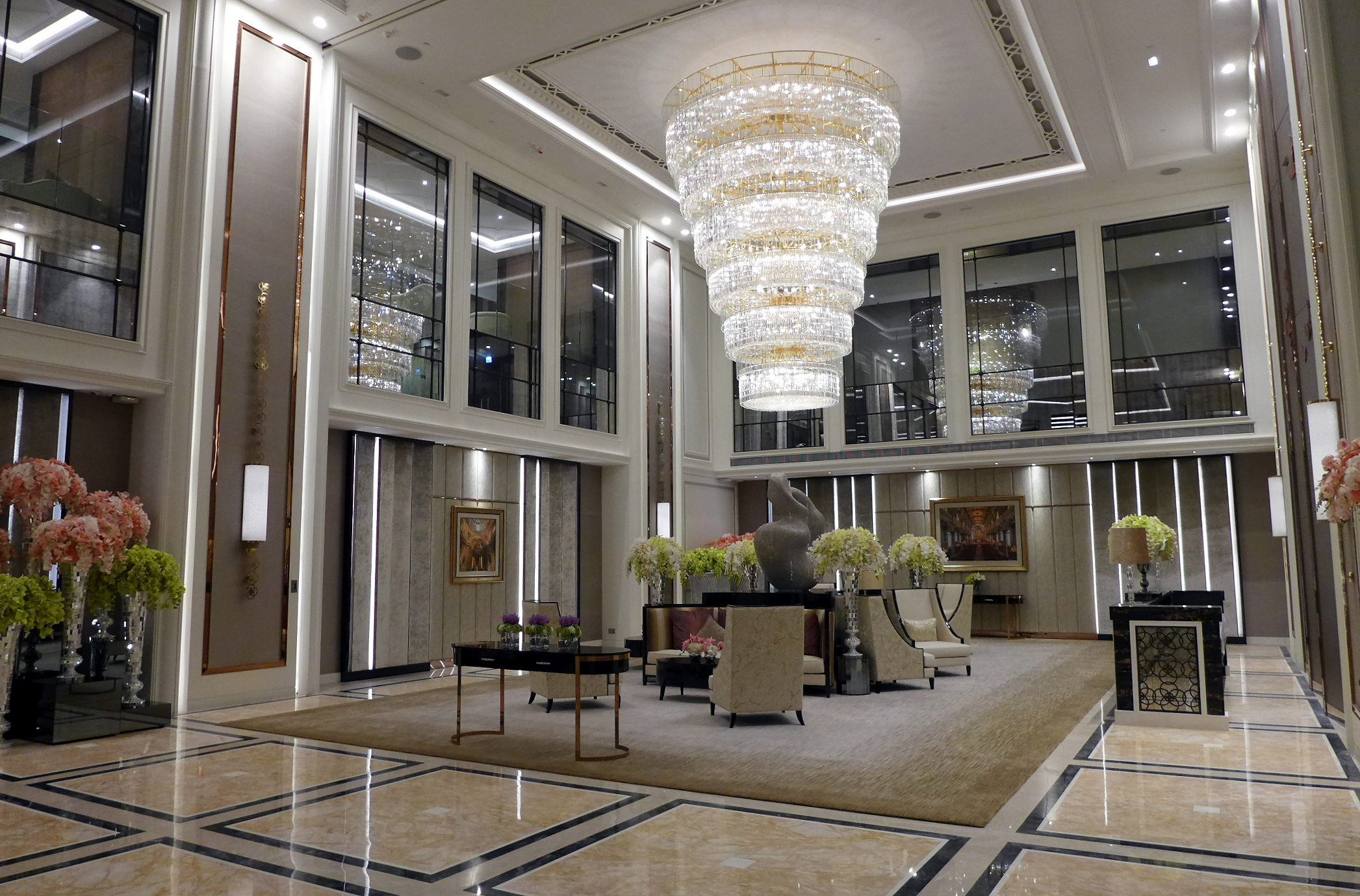 The Olympian Hong Kong Lobby